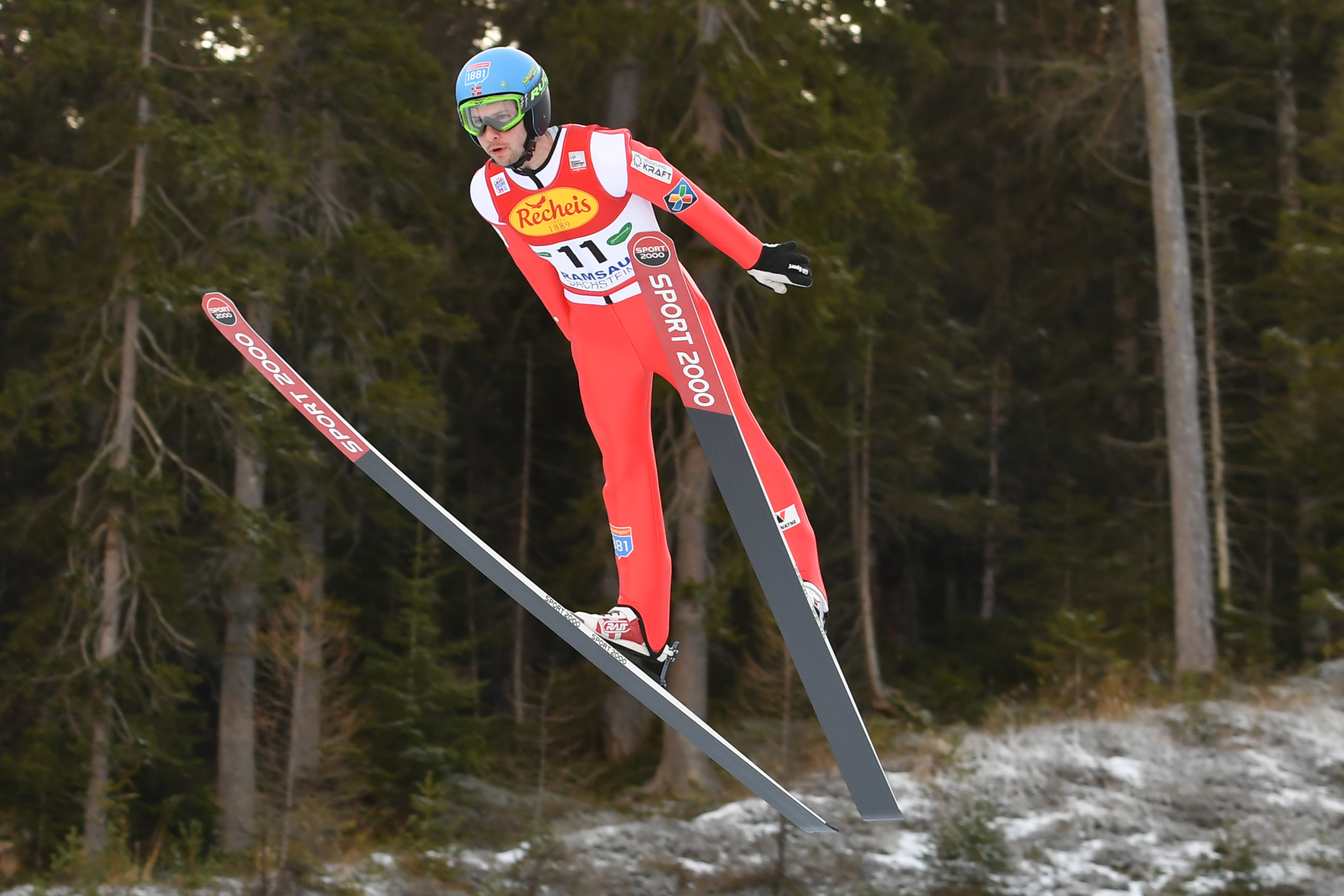 FIS World Cup Nordic Combined, Ramsau/Austria, 2016-12-16 to 2016-12-18.